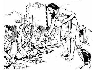 Ramdas chaphal